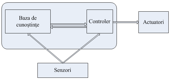 Own work "Own work"